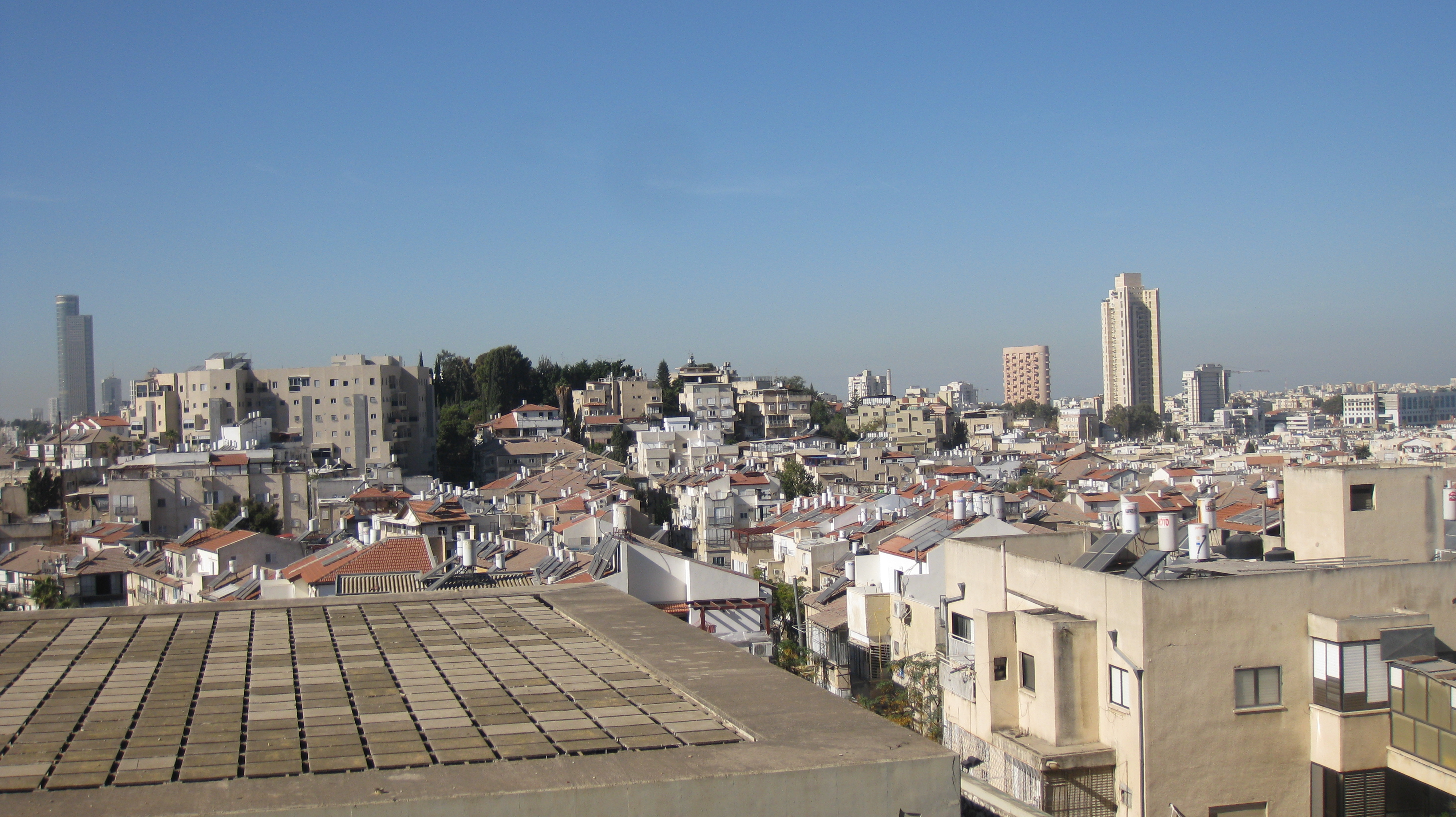 View from Ponevezh Yeshiva in Bnei Brak